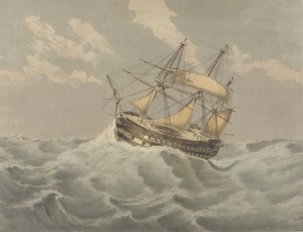 HMS 'Bellerophon' (1824), 50 Miles ESE of Malta, 1 Feb 1852 Inscribed: "H.M.S. BELLEROPHON. Captain the Rt Honble Lord George Poulet. In a Gale, 50 miles ESE of Malta - Feby 1st 1852". Corresponding to this print is the sketchbook kept 1850-53 by Mends, also in the NMM collection. The original watercolour behind this composition is not included, but there are two (PAI0863/4) showing Mends's own ship (HMS 'Trafalgar') affected by the same winds.